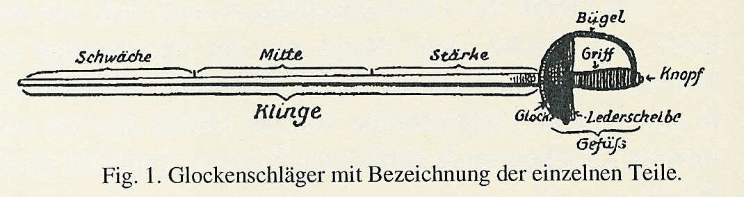 German academic fencing weapon Glockenschläger, illustration of 1906